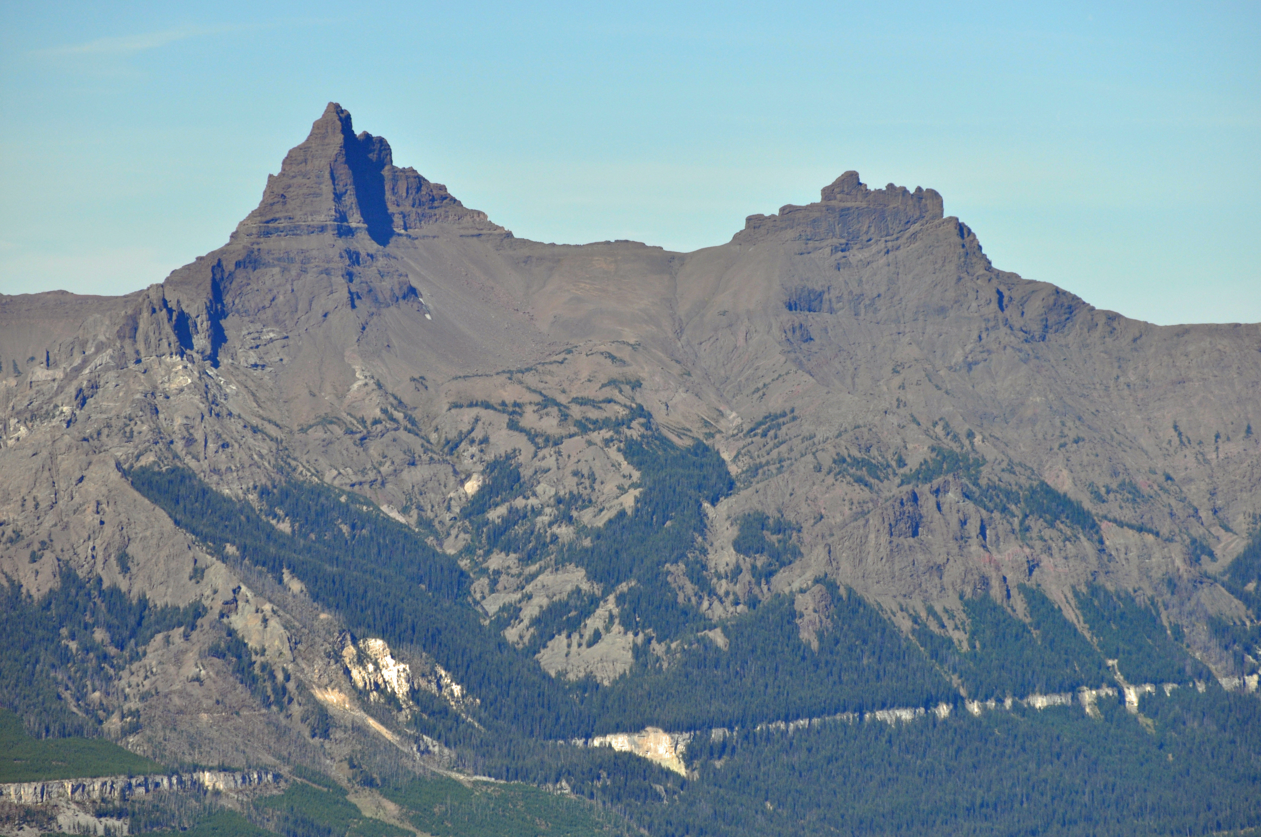 Pilot and Index Peaks, Park County Wyoming, Absaroka Range